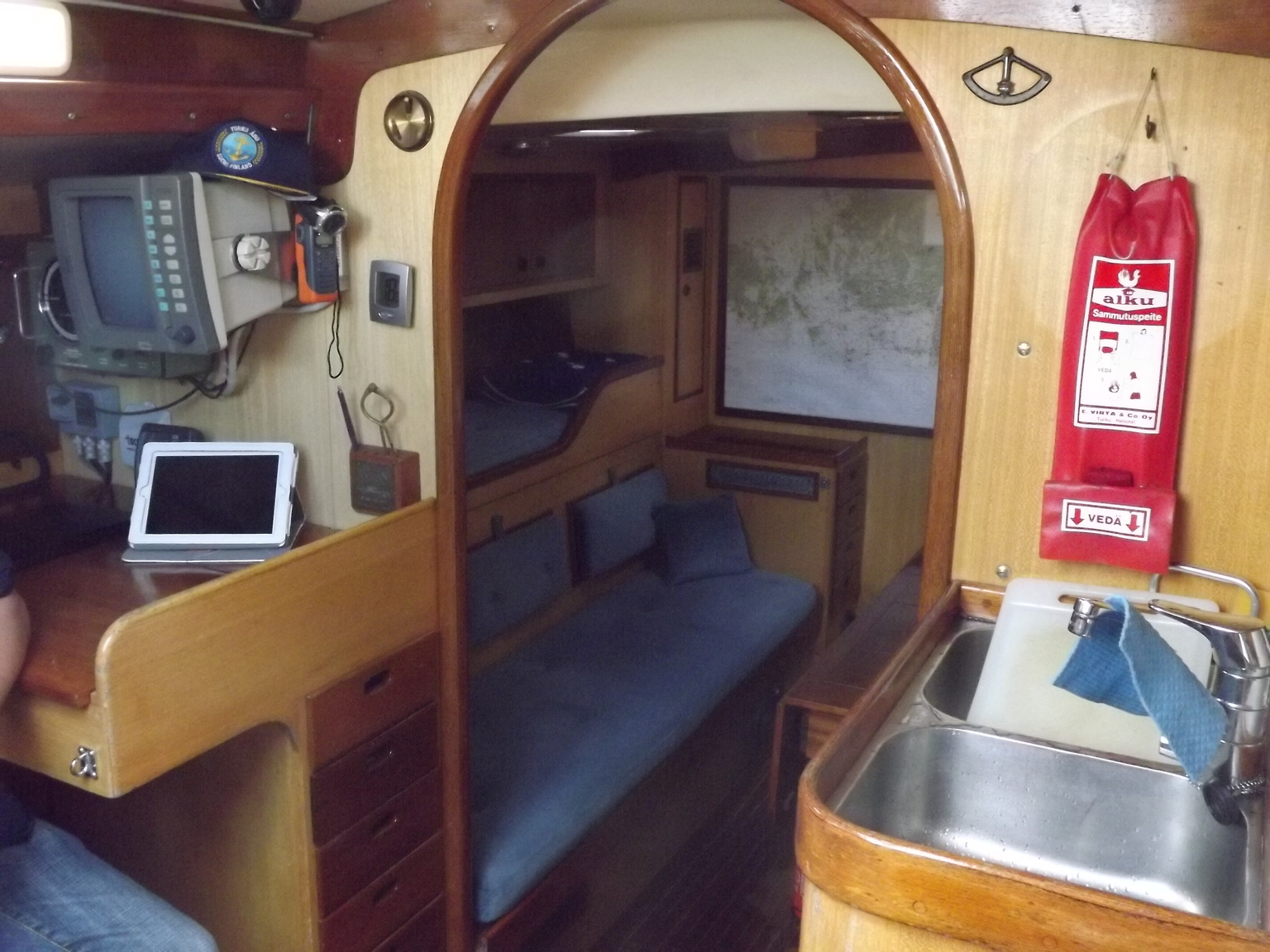 Interior of a Swan 43 from 1971, S/Y Merisusi of the scout troop Auran Tähti Pojat from Turku. Image taken at the BP-Fellowship Event in Turku 2012.